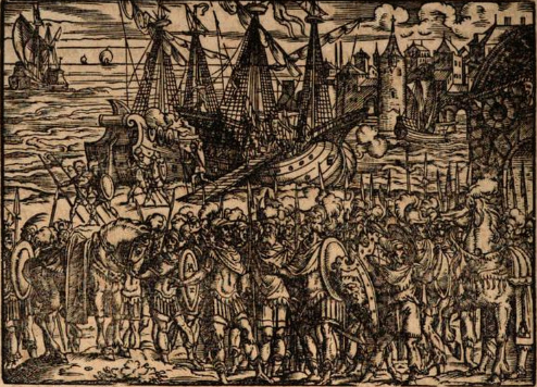 Skanderbeg disembarking in Italy 1461